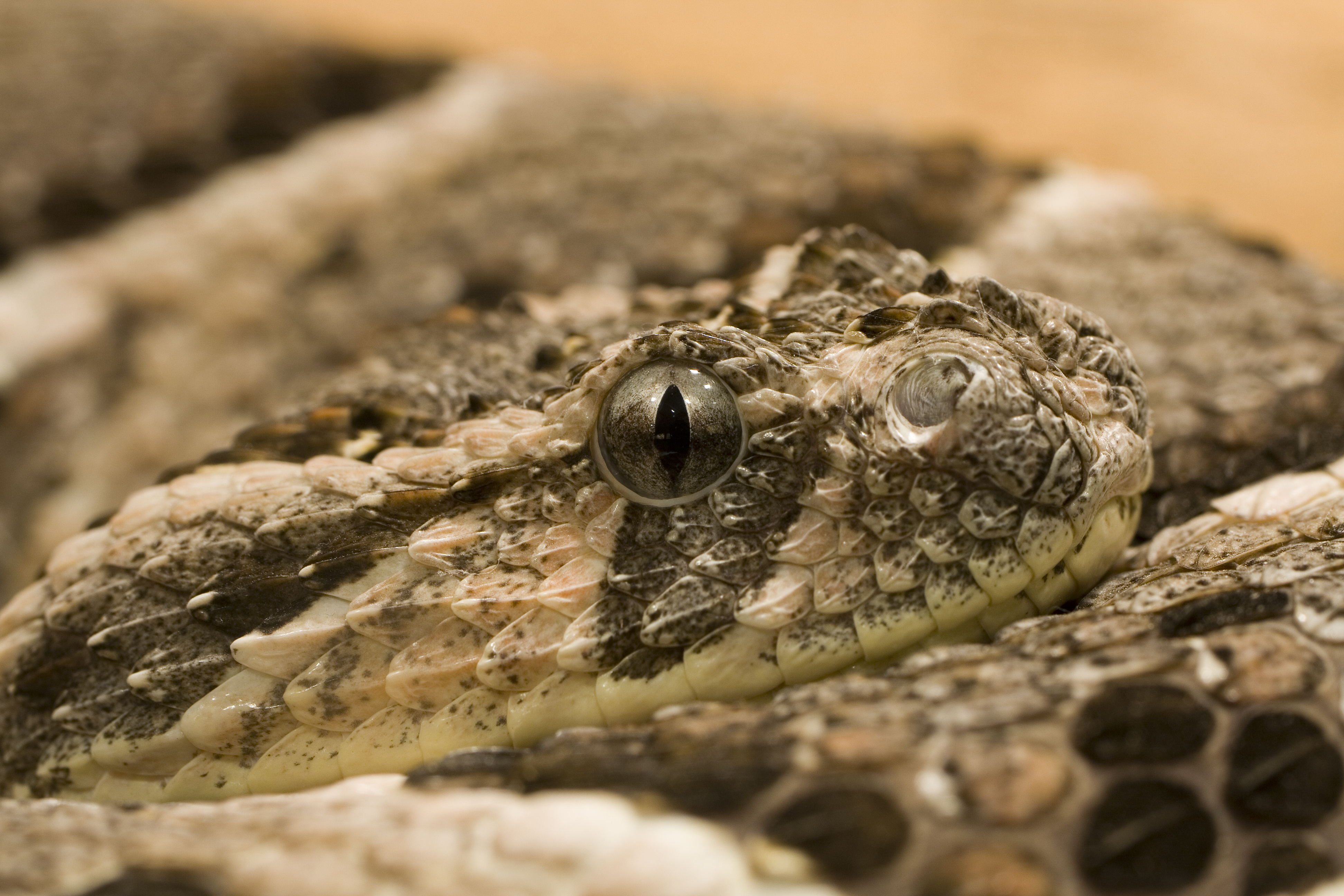 Puff adder (Bitis arietans) head, Darmstadt Vivarium, Darmstadt, Germany